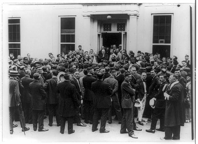 Joseph P. Tumulty addressing crowd of American citizens of Polish birth or extraction, who called at the White House to present resolutions to President Wilson asking him to continue the present national policy in support of Polish independence.